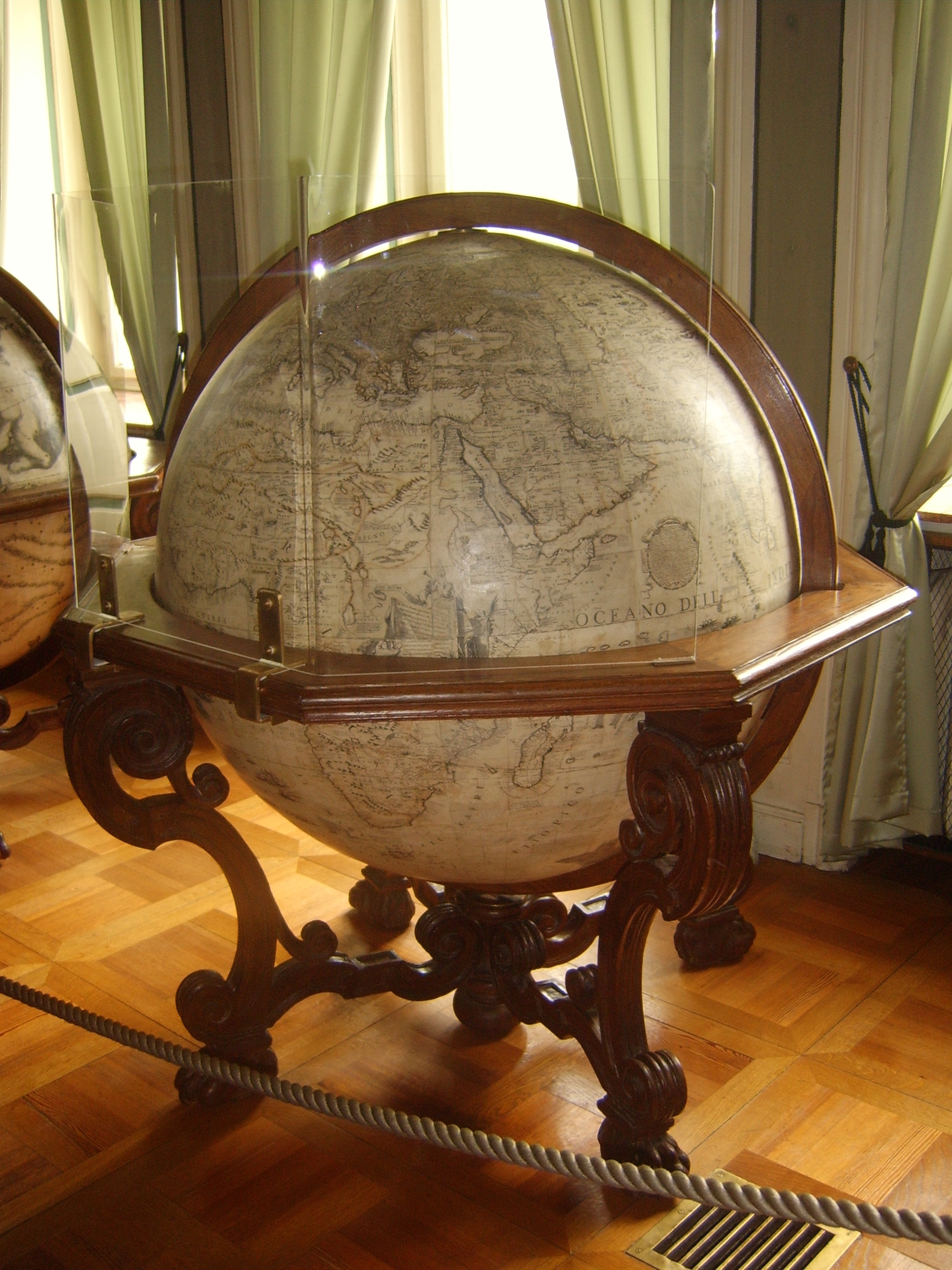 One of two globes of Vincenzo Coronelli (Vin Cenz A.) 1683-1693 in a museum in Nieborow, Poland.